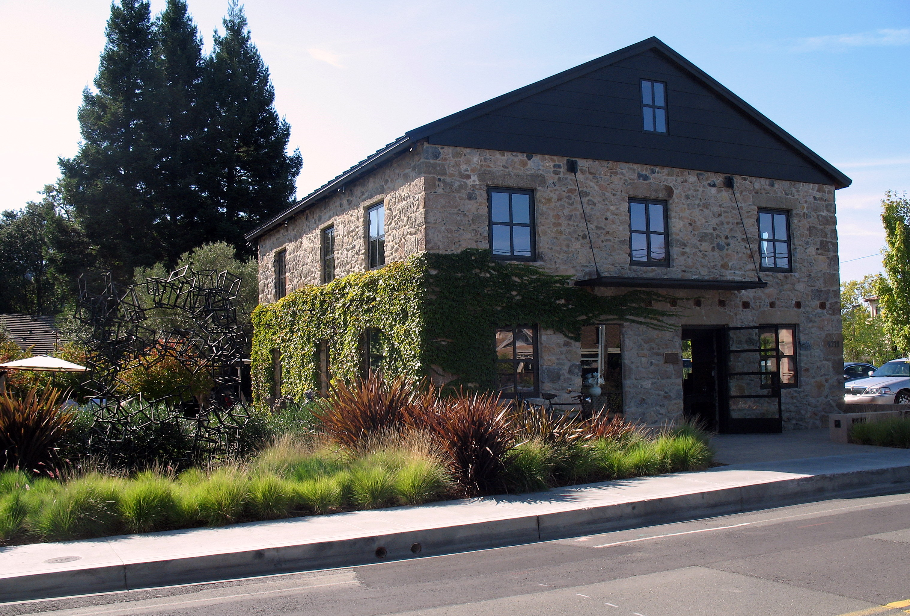 National Register of Historic Places listings in Napa County, California. Charles Rovegno House, 6711 Washington St., Yountville, California